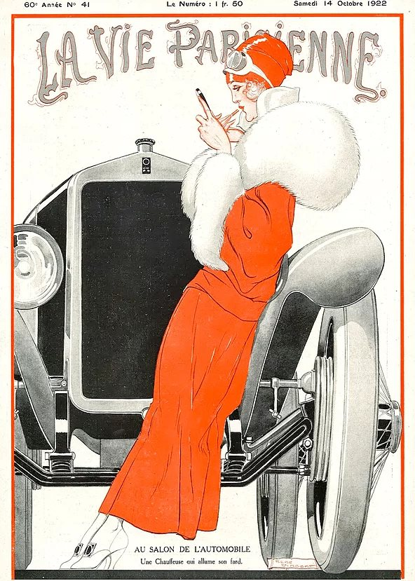 Cover of the 14 October 1922 edition of La Vie Parisienne.